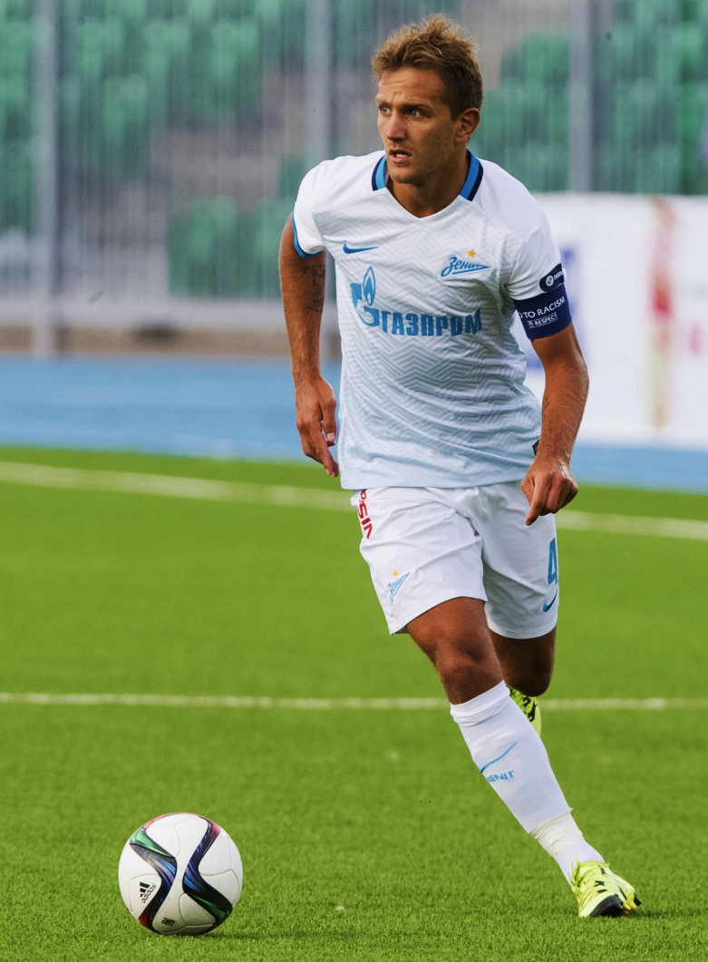 Domenico Criscito